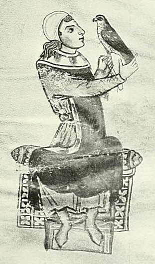 Manfred of Sicily